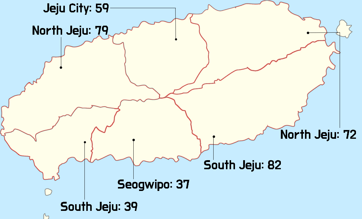 This is a map showing the distribution of Oreum.